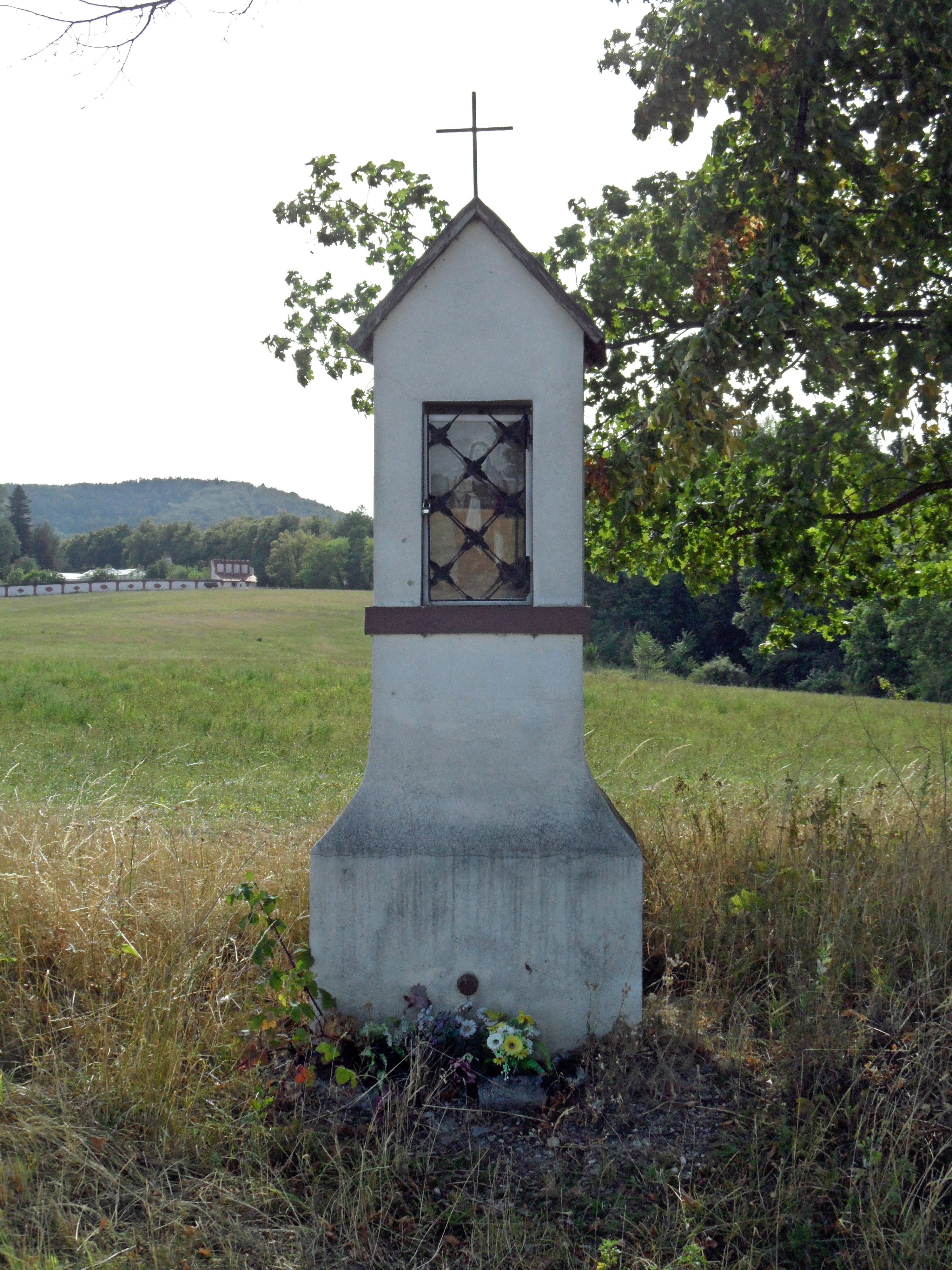 Ves Bílá Voda L. Chapel near Crossroads. Jeseník District, the Czech Republic.